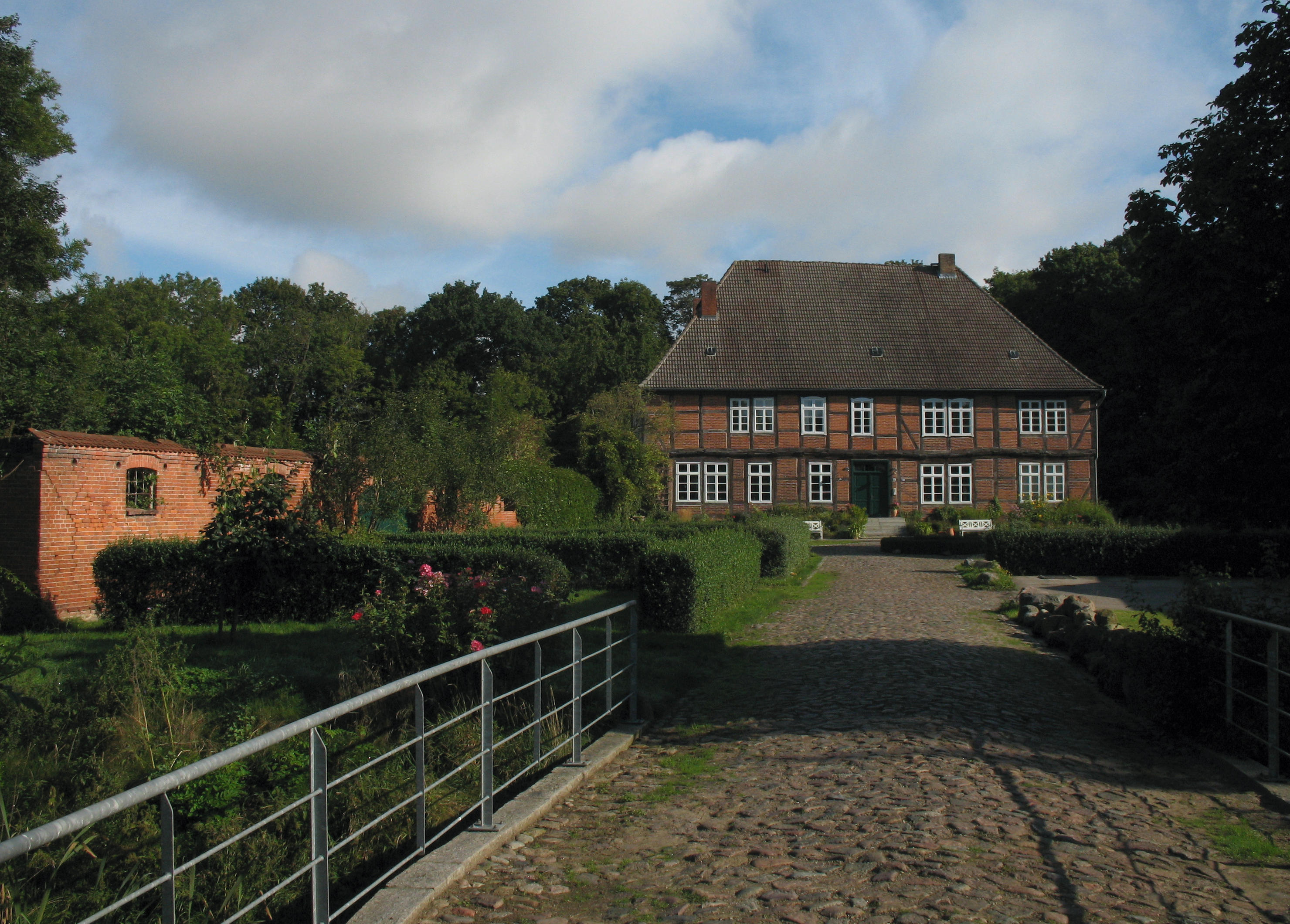 Manor in Groß Wüstenfelde in Mecklenburg-Western Pomerania, Germany